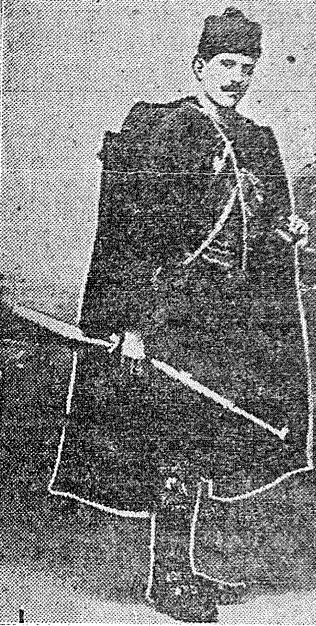 Velimir Prelić, Chetnik